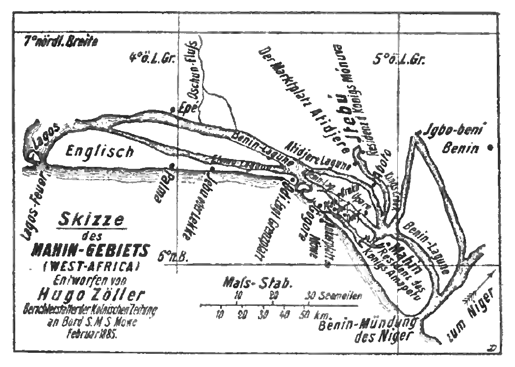 Sketch of the Mahin area (West-Africa), designed by Hugo Zöller, rapporteur of the Kölnische Zeitung aboard S.M.S. Möwe, February 1885.